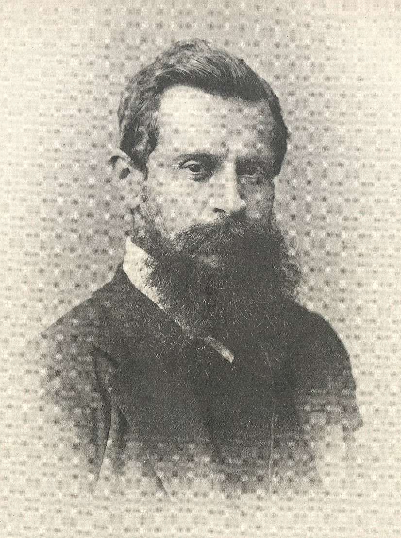 Henry Fitzalan-Howard, 15th Duke of Norfolk (1847-1917)